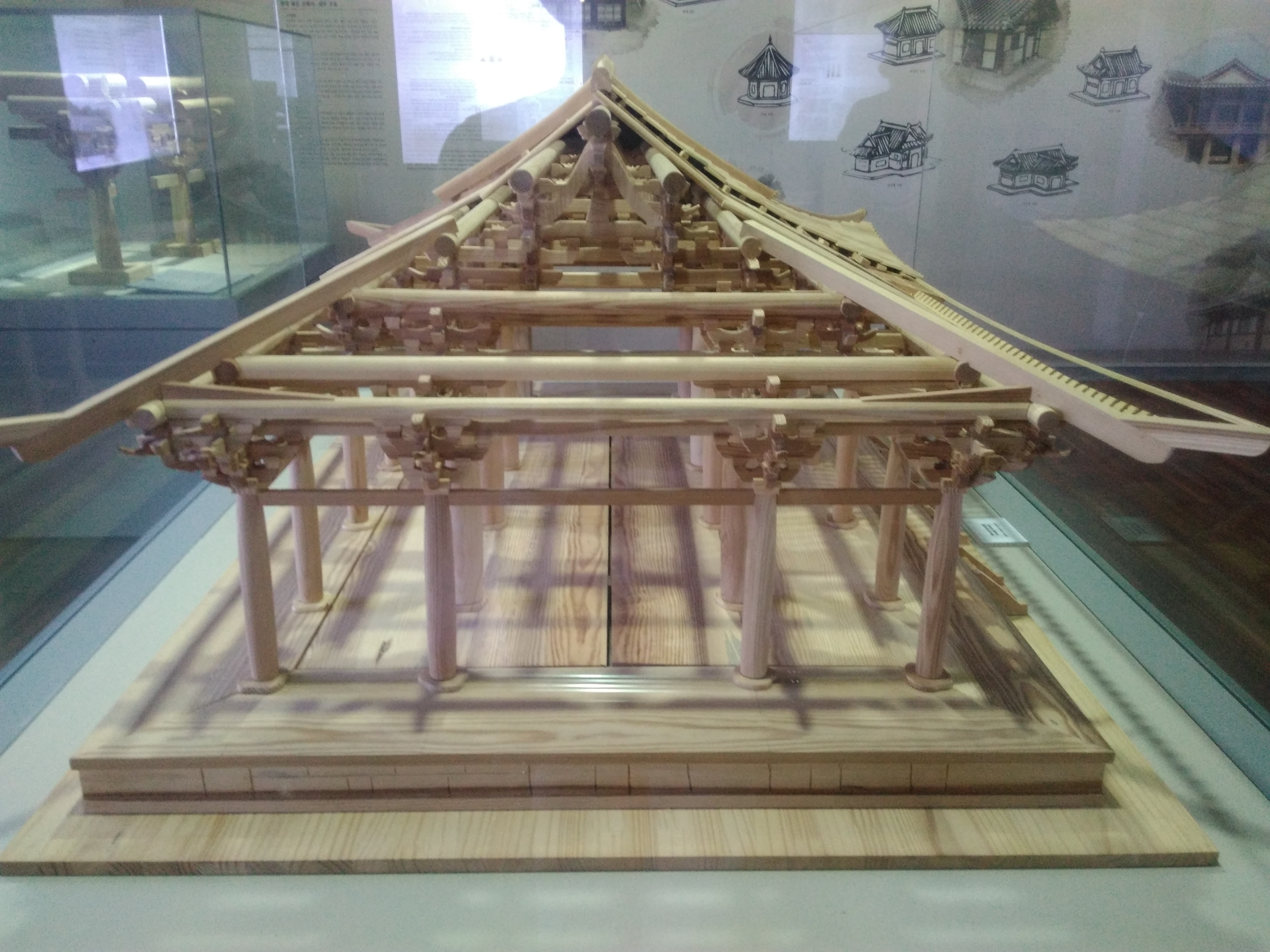 Model at the Buseoksa museum.